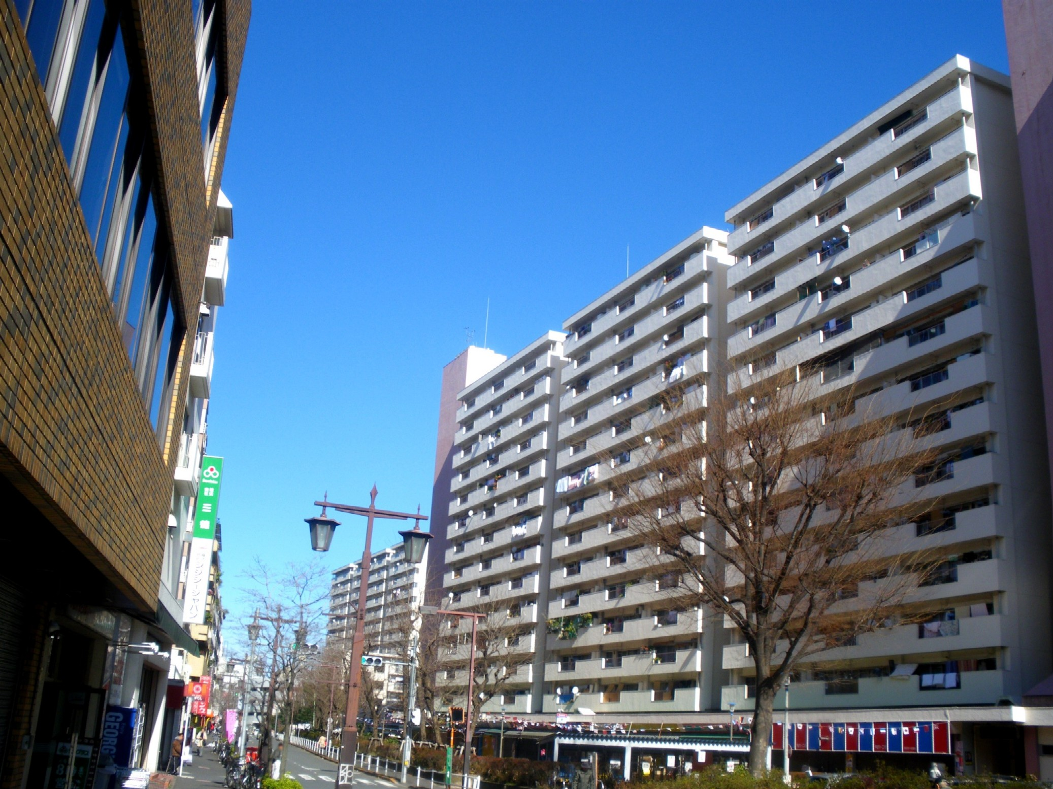 A photo of Toyama Heights,a famous apartment block in Tokyo. Toyama,Shinjuku-ku,Tokyo,Japan.